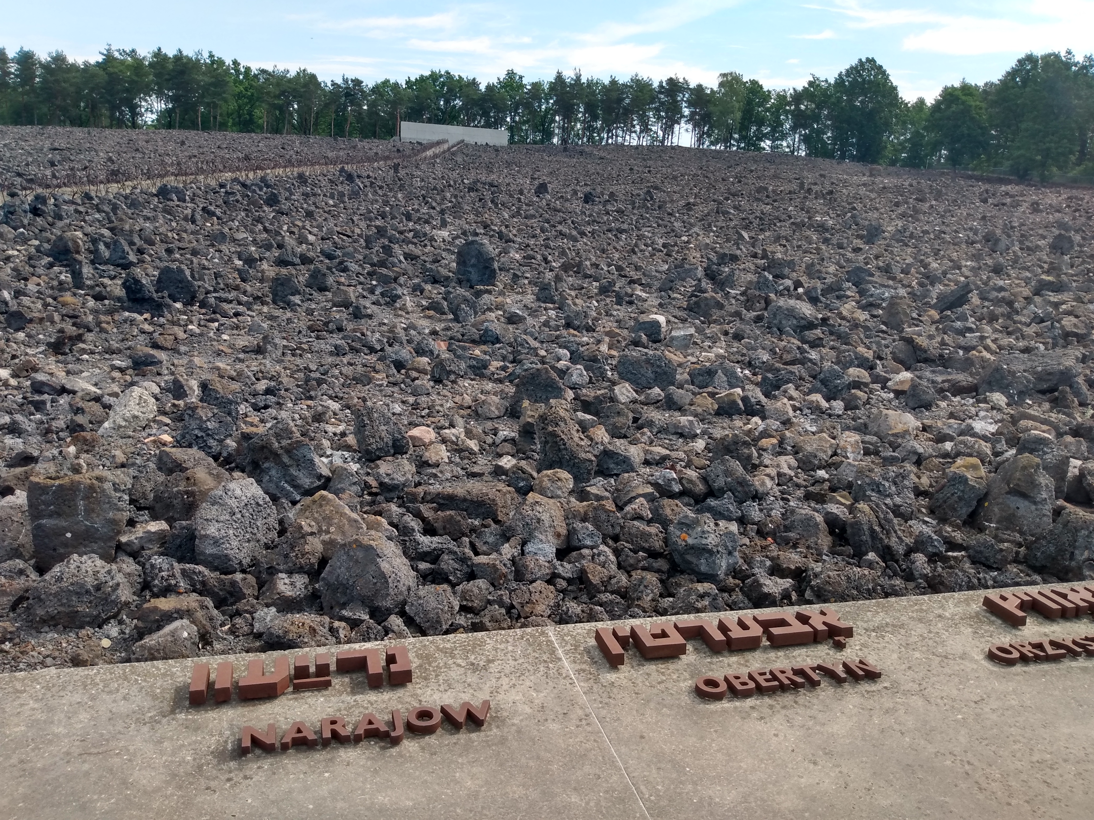 Museum and Memorial in Bełżec, commemorating victims of the Nazi-German extermination camp. Part of the "Stone Pile" and Cast-iron names of the towns .